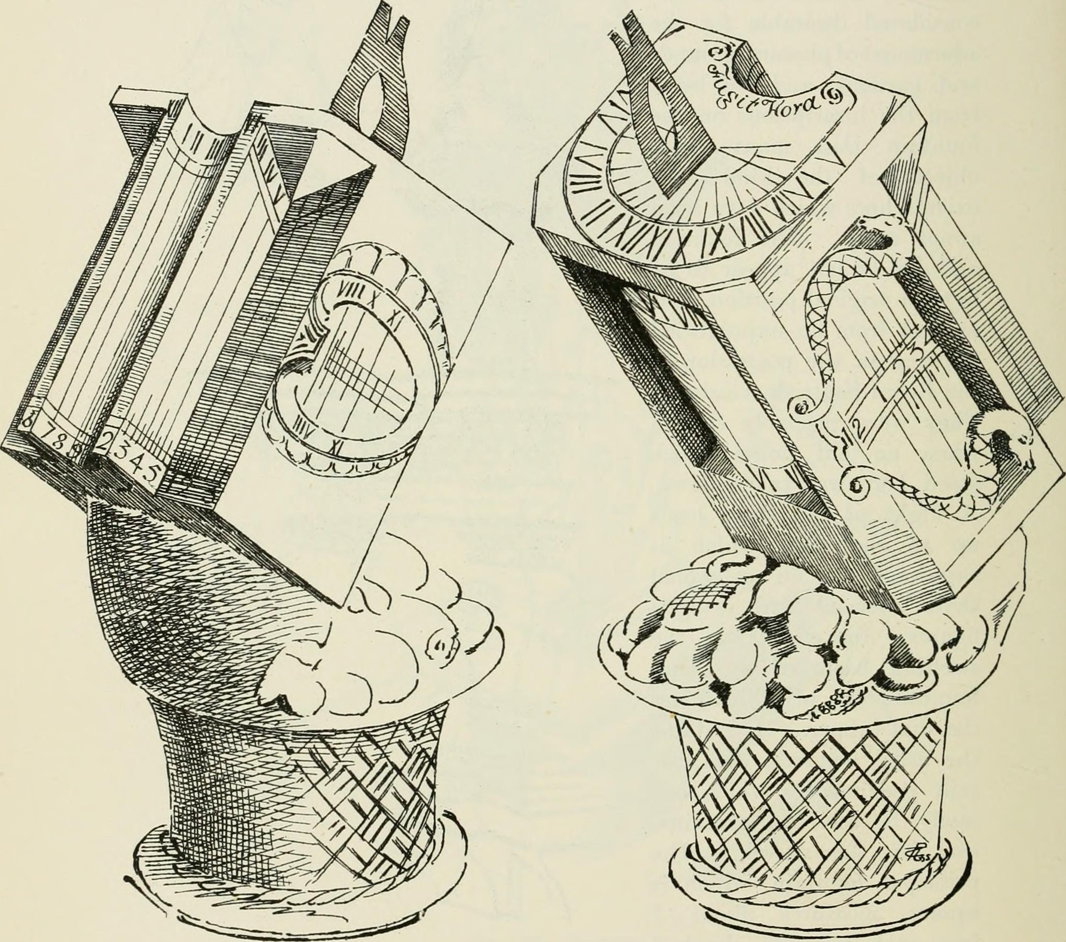 Title: The castellated and domestic architecture of Scotland, from the twelfth to the eighteenth century Year: 1887 (1880s) Authors: MacGibbon, David, d. 1902 Ross, Thomas, 1839-1930 Subjects: Architecture Architecture, Domestic Castles Publisher: Edinburgh : D. Douglas Text Appearing Before Image: Fig. 1599.—Dundas Castle. From an inscription seen on the SUNDIALS 430 SUNDIALS those of Sir Walter Dundas, and his lady, Dame Ann Menteith; and thelatter, amongst other things, advise visitors to behave themselves seemly,to forbear to do harm to the fountain, nor yet shouldst those inclinedto injure the signs of the dial.* Lamancha llou^e, PeehJesshirp,.—-This very beautiful dial exhibits thegreatest variation from the type of any known example. It has the usual Text Appearing After Image: Fig. 1(500.—Laraancha HouseBack View. Fig. 1601.—Lamancha House.Front View. cylinder, liollowed out in a very pronounced form (Fig. 1600), but all theother details are changed. The dial on the top is square (Fig. 1601), * For further particulars see Miss Gattys Book of Sundials. SUNDIALS 431 — SUNDIALS the eight horns being wanting; the lower corners are canted off, the figures are arranged in a circle, and are finely cut, and the gnomon, made of thin iron, is of a pleasing design. Following the circle of the cylinder is the motto fugit hora (Fig. 1602). The under side of the stone is cut into so as to leave a drum-shaped dial (a new form), the shadows on which are cast by the sides of the cutting. The sides of the dial-stone contain each a single distinct and different figure, unlike those usually found in this position. The oblong hollow on one side has two carved serpents starting with their intertwisted tails and wriggling round the sides of the hollow, the upper edge of whi